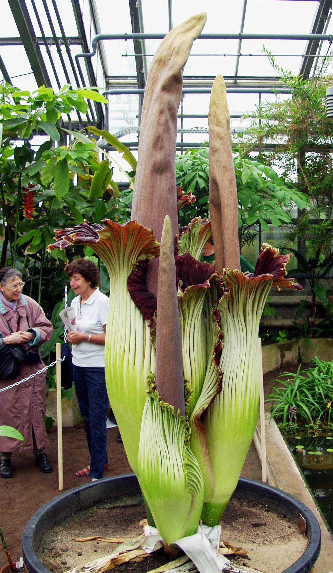 A titan arum (Amorphophallus titanum) with 3 flowers at Botanischer Garten Bonn